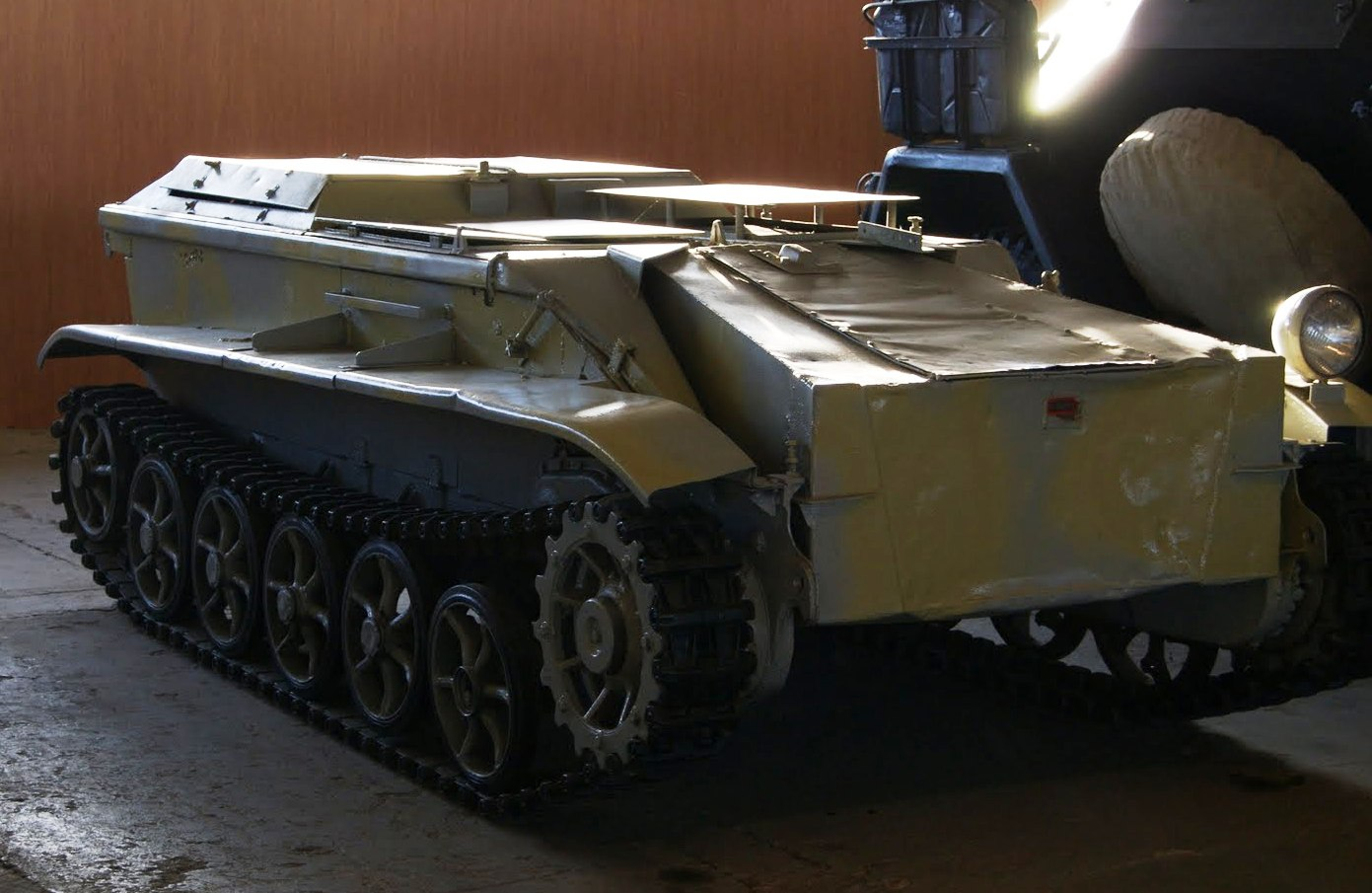 Borgward IV in the Kubinka tank museum.